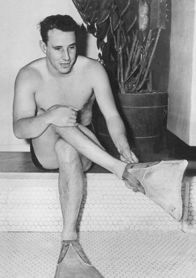 1940 Los Angeles CA Paul Wolf Flounder Feet Swimming Speed Man Press Photo